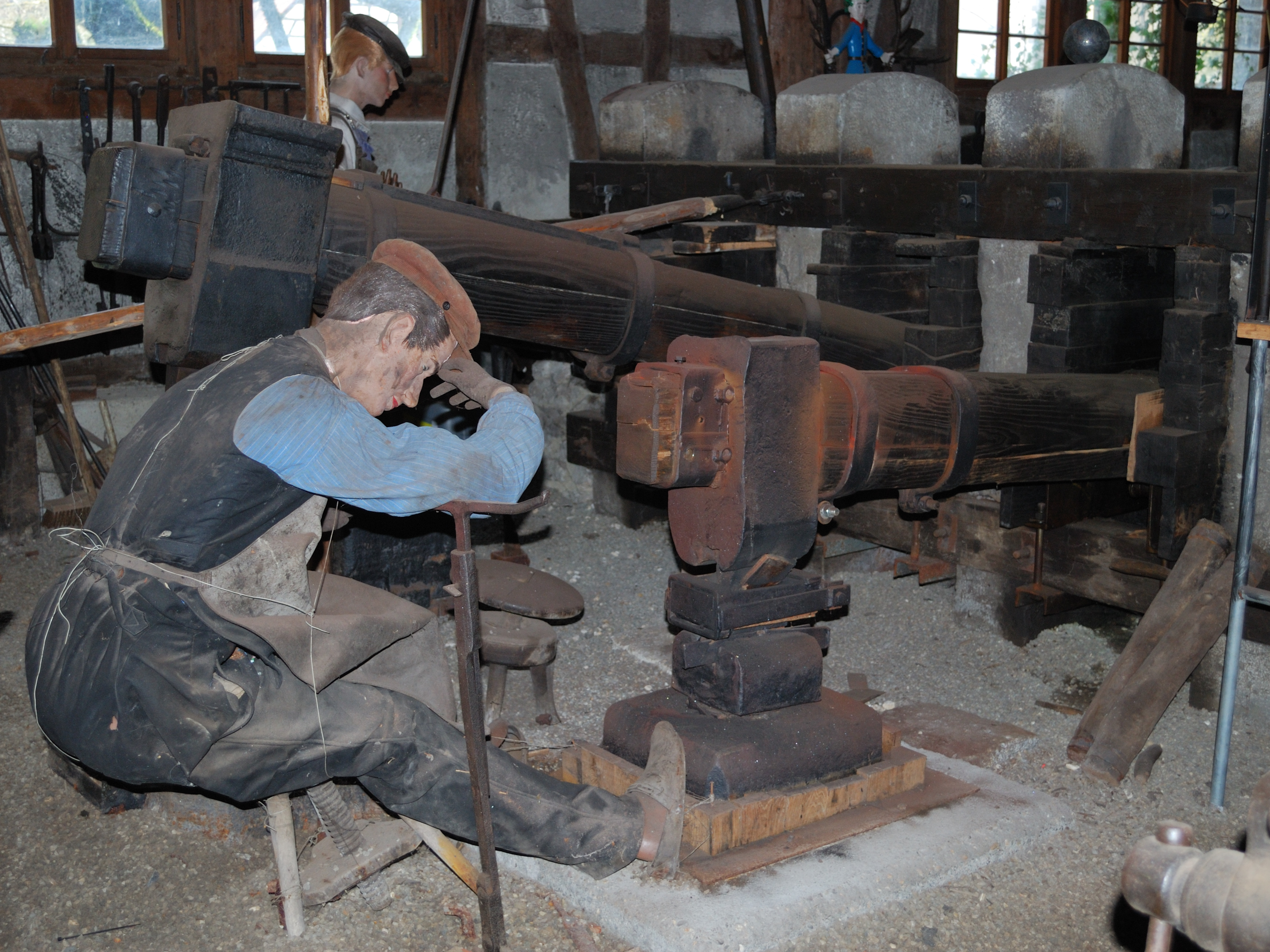 Museum in the historical hammermill at Blautopf in Blaubeuren in Southern Germany.